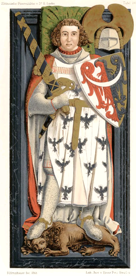 Bolko I duke of Silesia-Schweidnitz † 1301